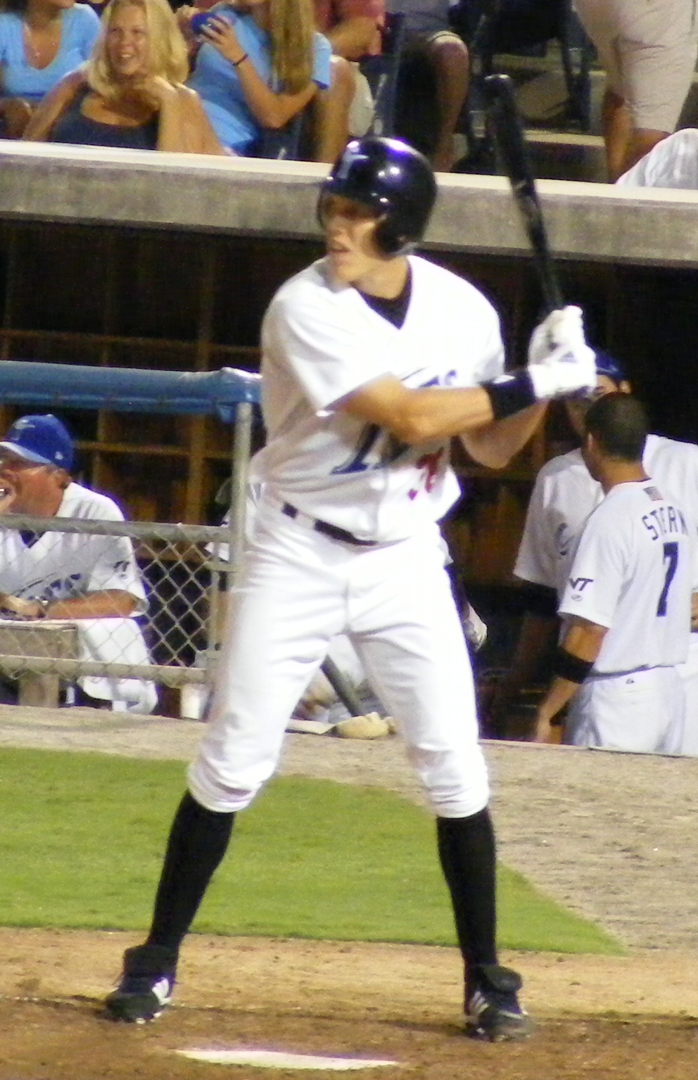 Val Majewski (en), of the Norfolk Tides (en), taken at a game in Harbor Park against the Columbus Clippers